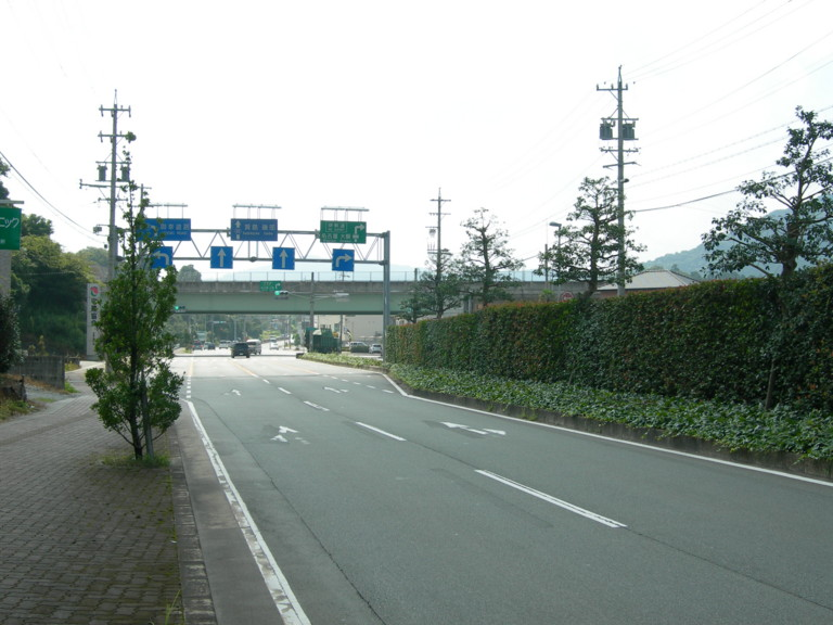 Mie prefectural route No.32, between Ise city and Shima city in Japan.